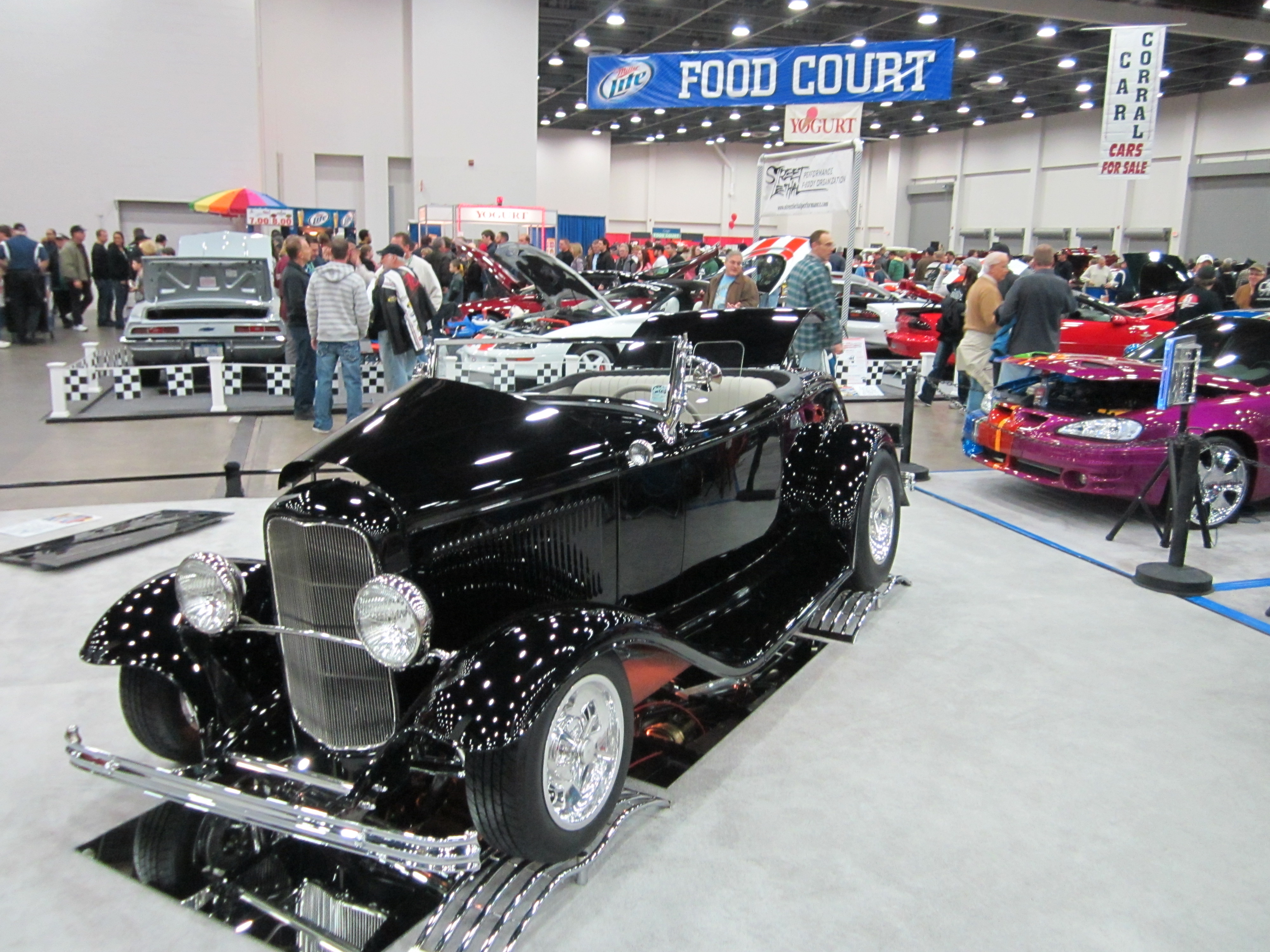 1932 Ford, Detroit Autorama Feb. 26, 2012